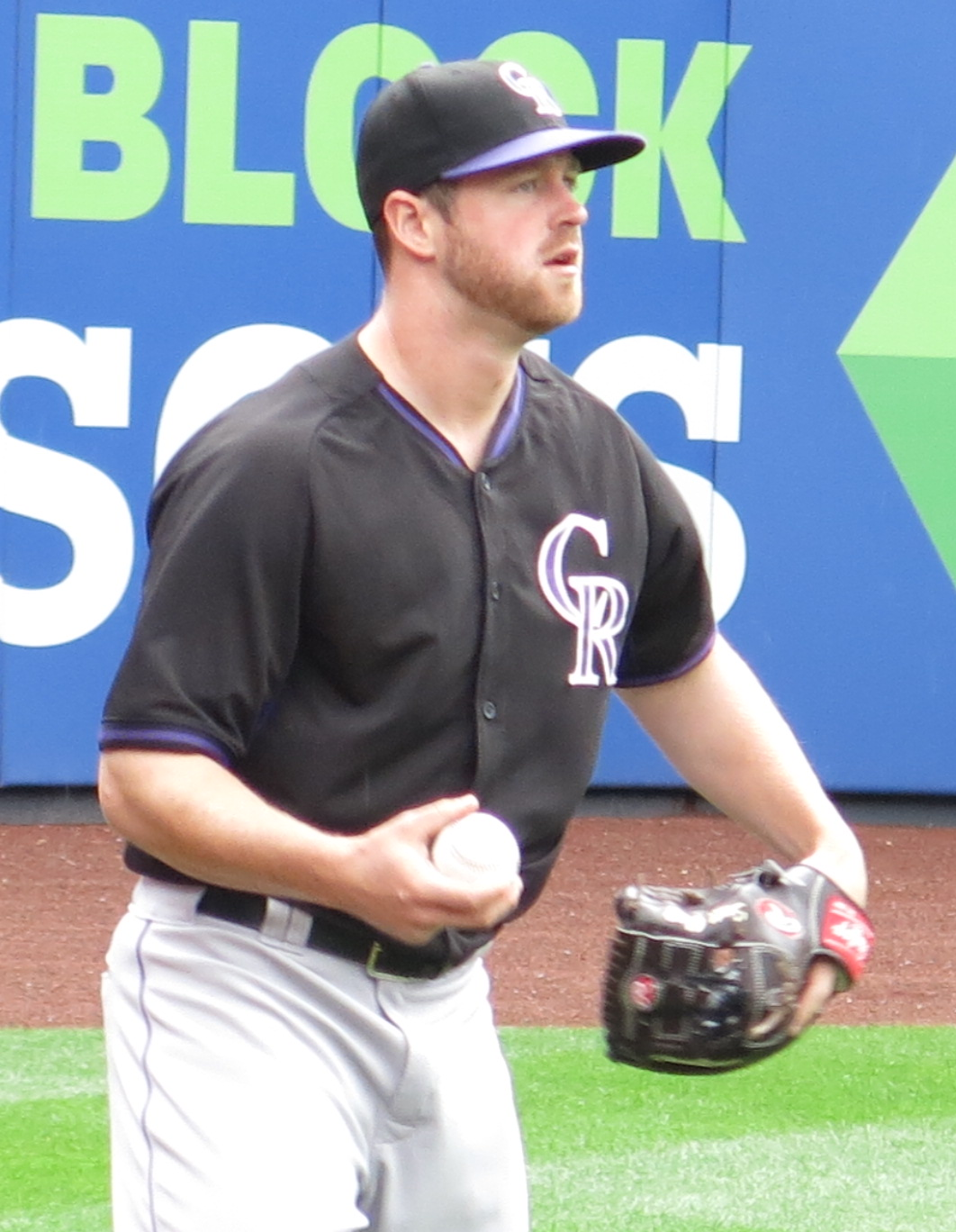 Scott Oberg of the Colorado Rockies, July 31, 2016.